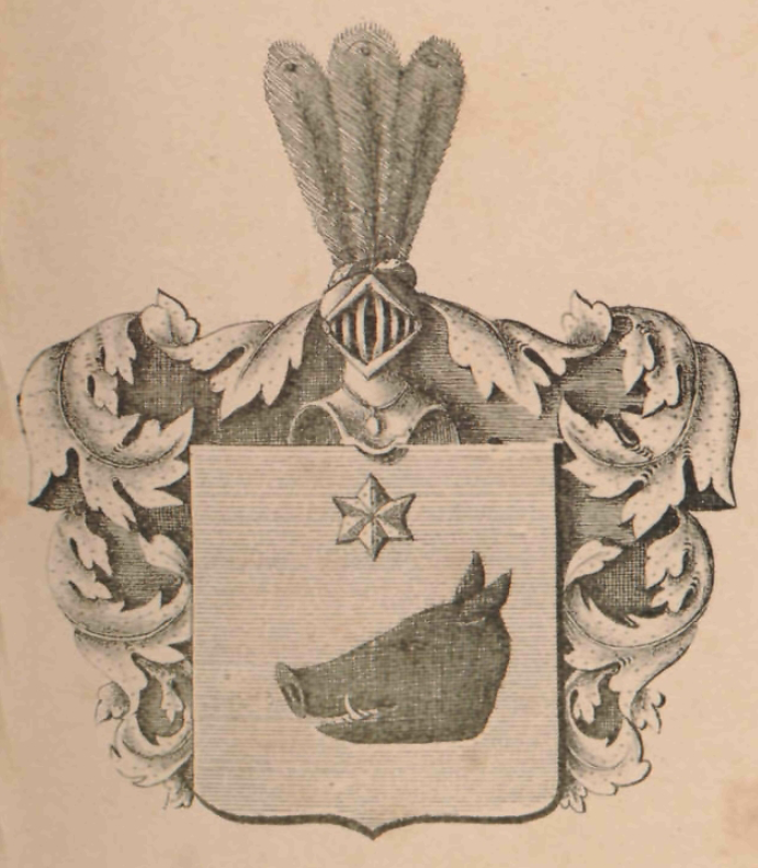 Svinhufvud family arms